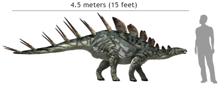 Kentosaurus size comparison with human, 4.5 meters (15 feet)